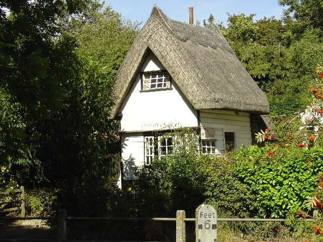 Ford Keeper's Cottage in Clavering, Essex.